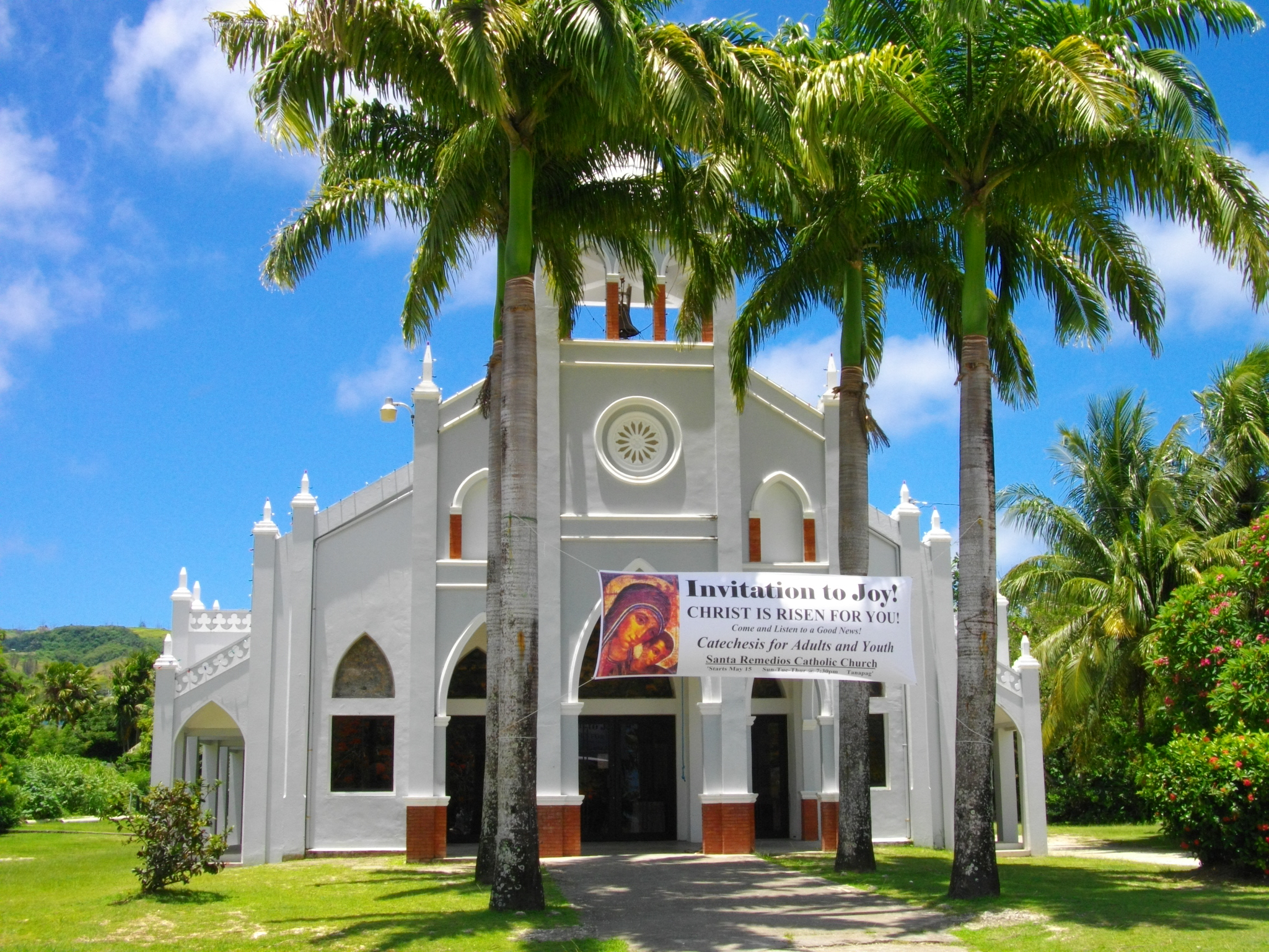 Tanapag Santa Remedio Church